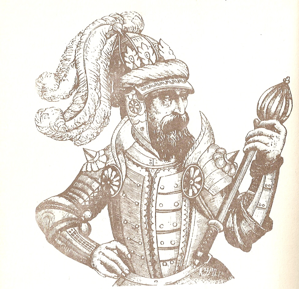 Algirdas, Grand Duke of Lithuania